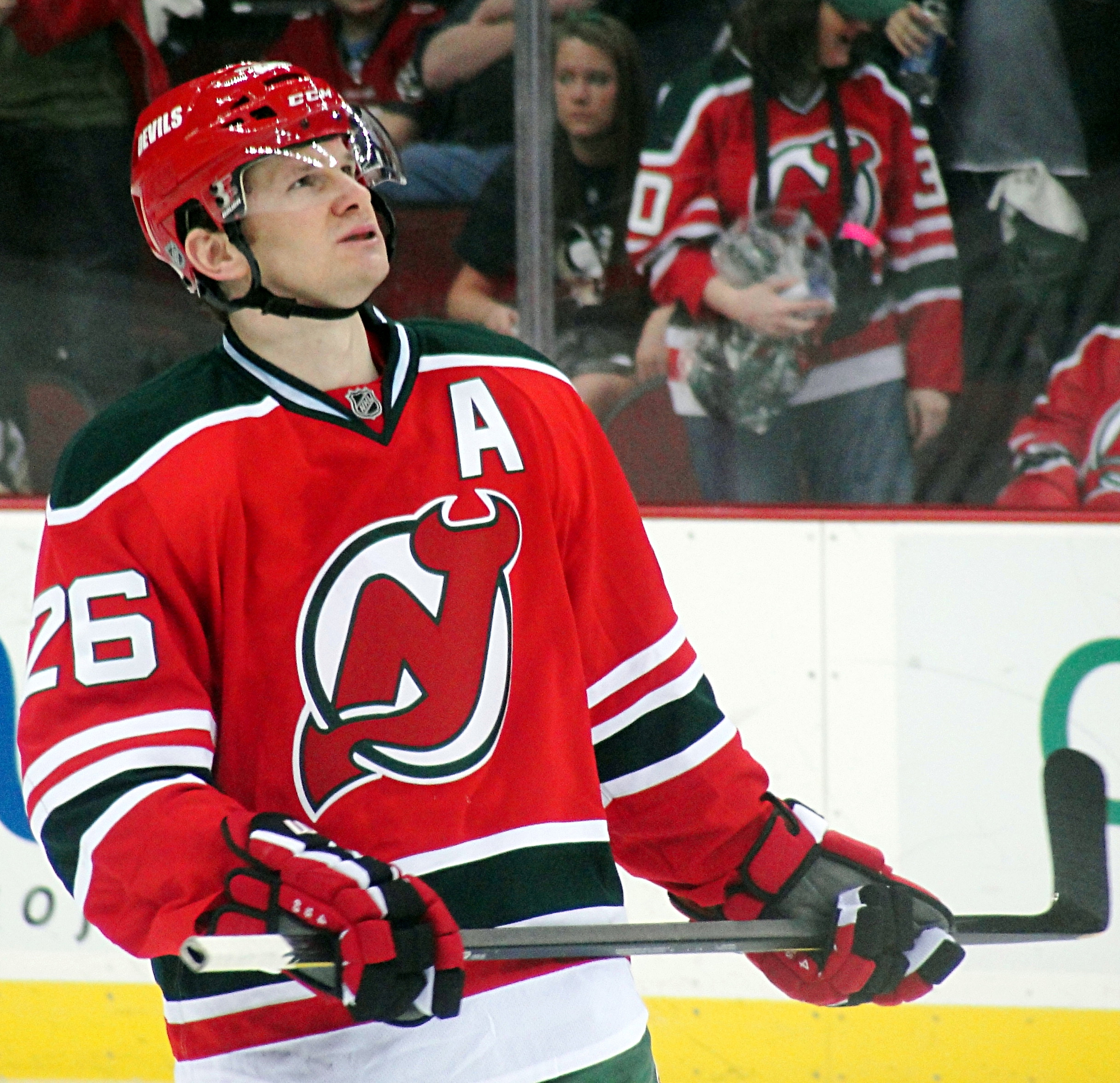 New Jersey Devils forward Patrik Elias skates against the Pittsburgh Penguins, March 17, 2012 at Prudential Center in Newark, NJ.